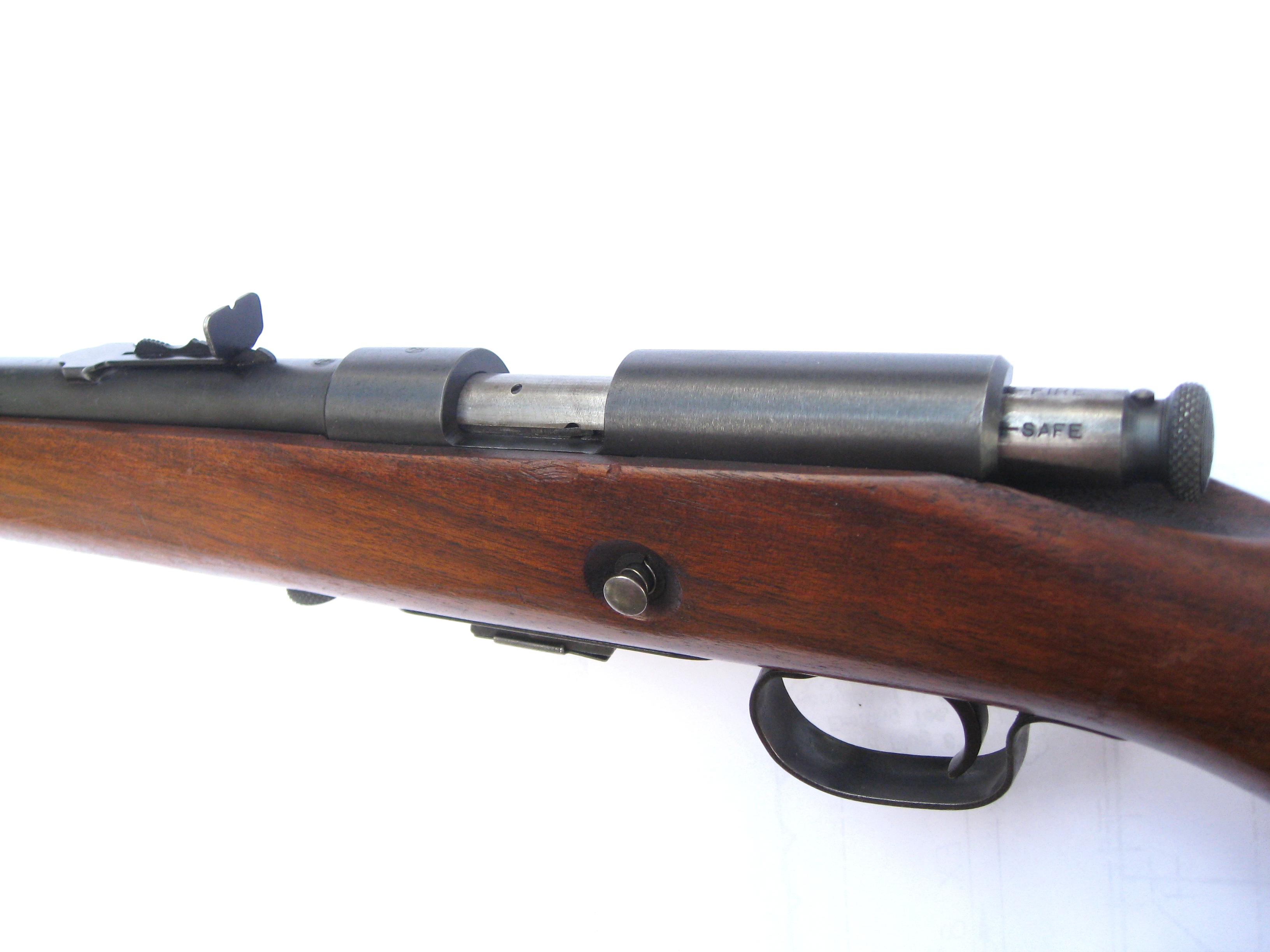 Winchester Model 69 rifle, closeup of action